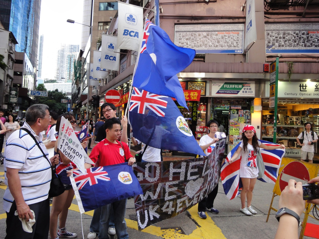 Hong Kong 1 July Match with British Hong Kong Flag